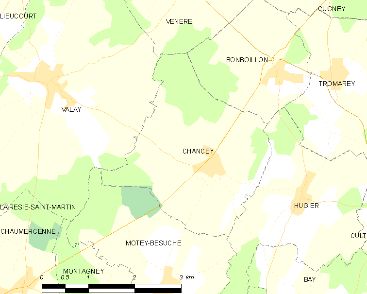 Map of French municipality